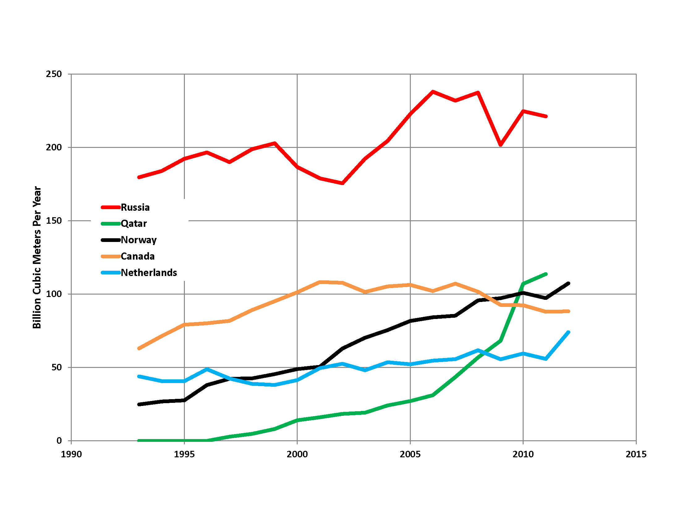 Top five exporters of natural gas (US EIA)